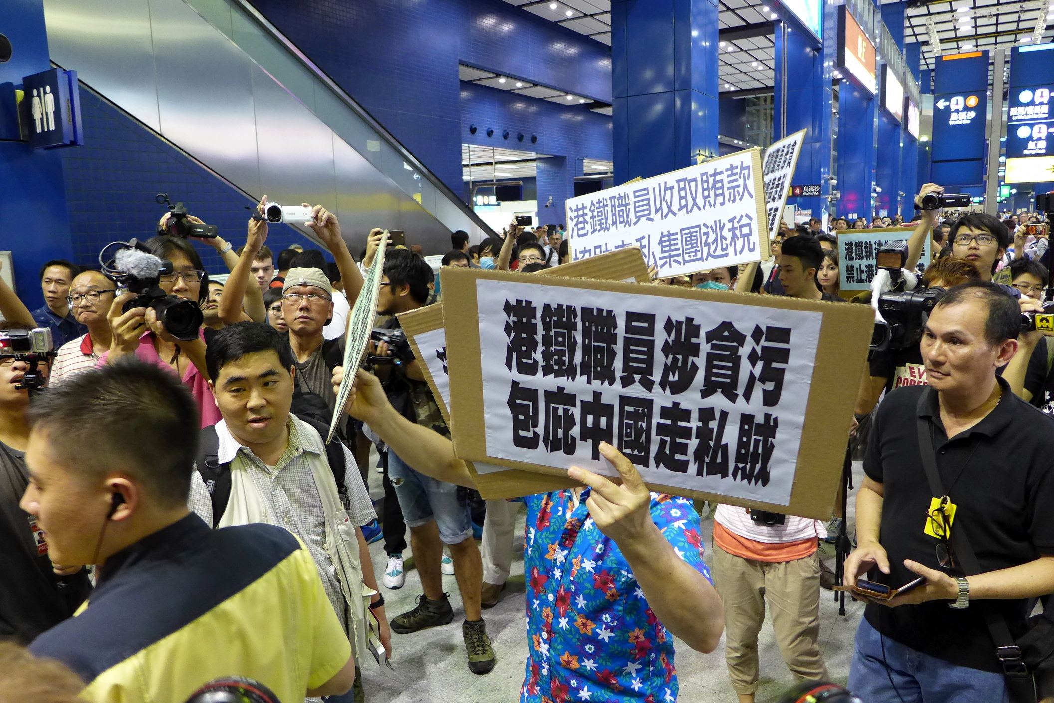 Protesters in Tai Wai Station